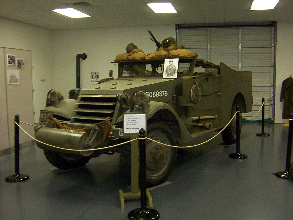 Photograph of exhibits in the Veterans' Museum in Halls, Tennessee. Photo made by: Thomas R Machnitzki I made the photo myself, feel free to use it.